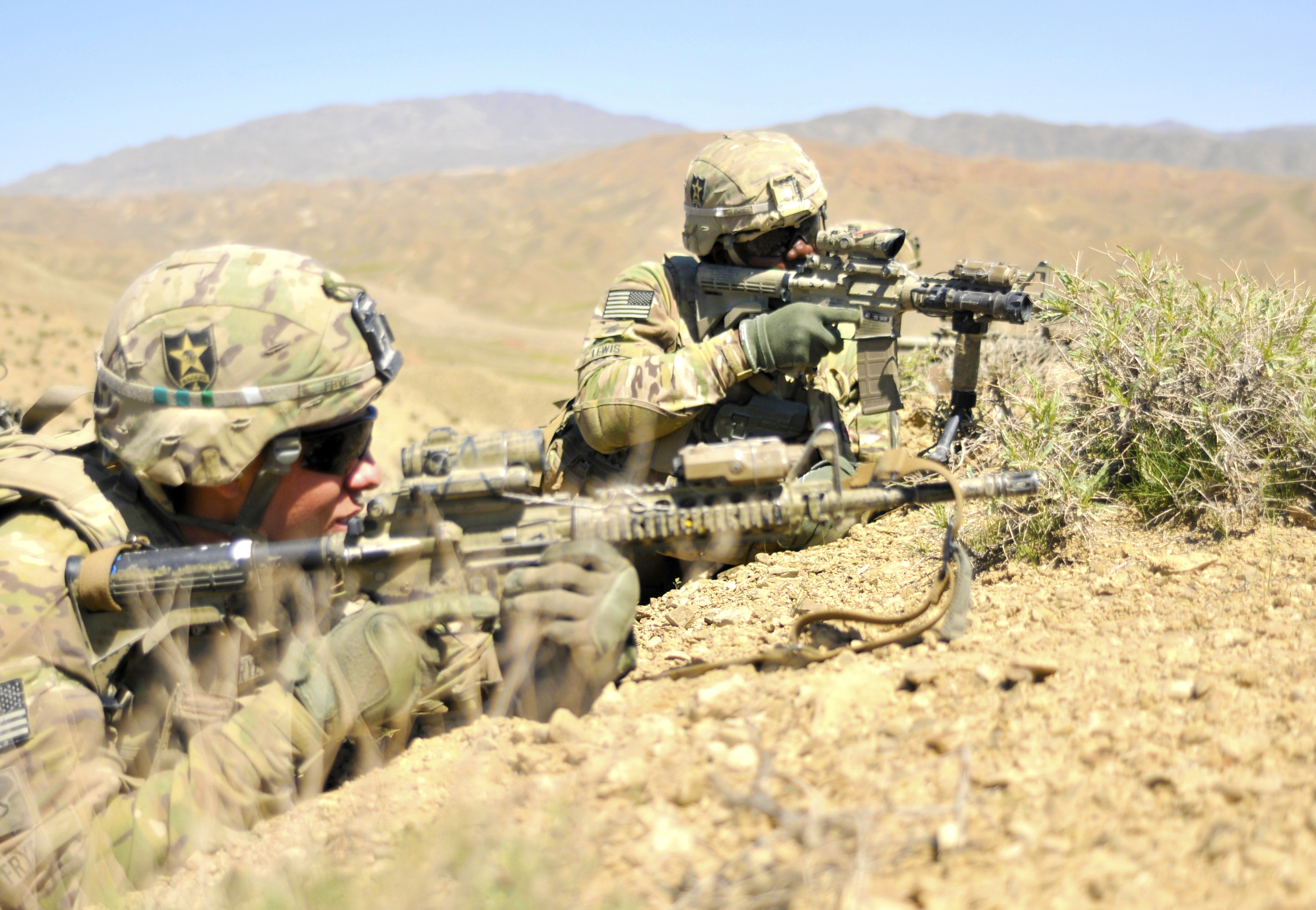 U.S. Army Pfc. Daniel J. Frye, from Yadkinville, N.C., and Command Sgt. Maj. Steven Lewis, from Brooklyn, N.Y. with 2nd Battalion, 23rd Infantry Regiment, provide security as Afghan Border Police (ABP) break ground on a new checkpoint in the district of Spin Boldak, Kandahar province, Afghanistan, March 25, 2013. The ABP moved to the new location to block an insurgent infiltration route.